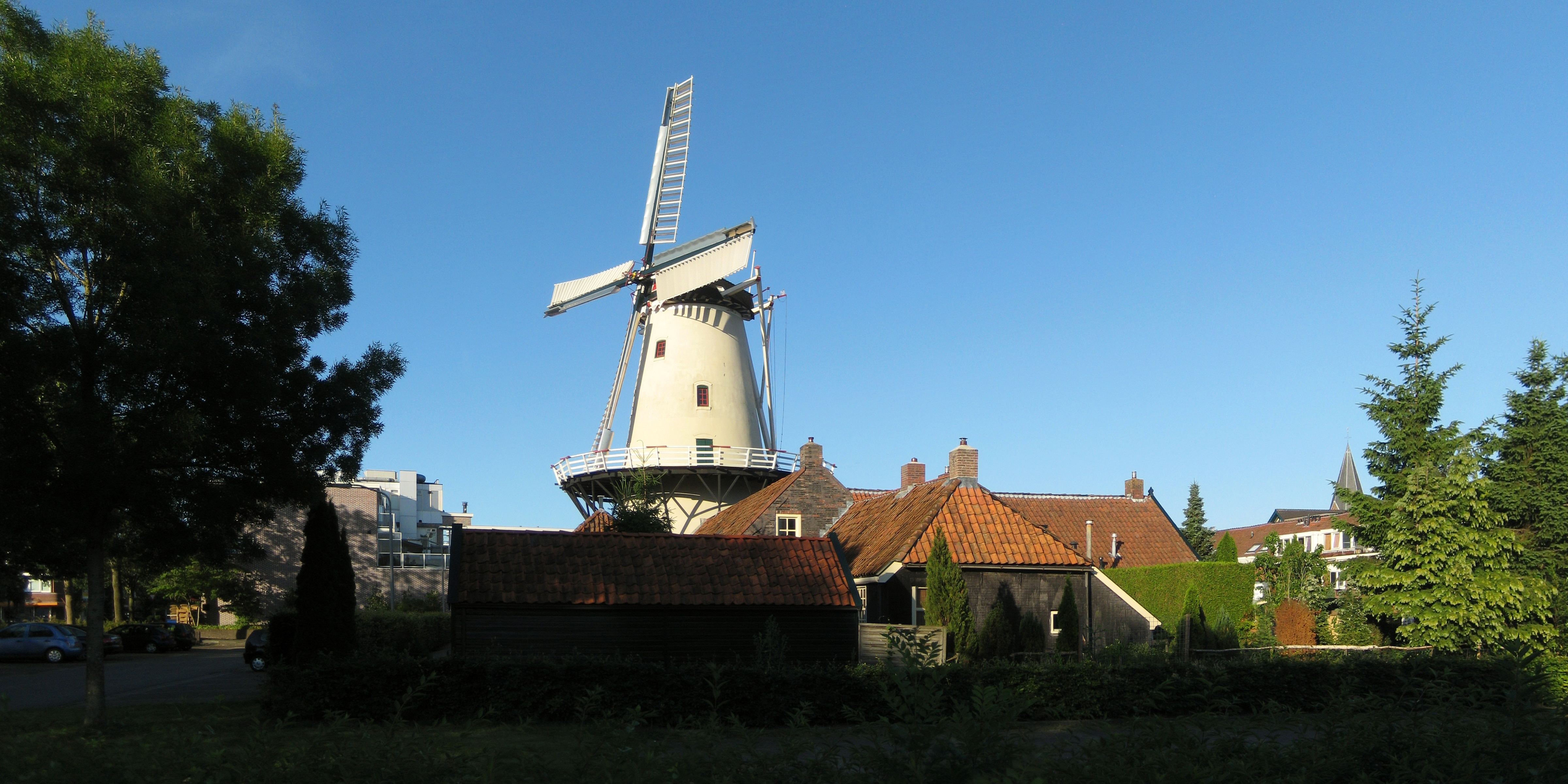 Windmill De Hoop (1839) in Haren, a village in the Dutch province of Groningen.